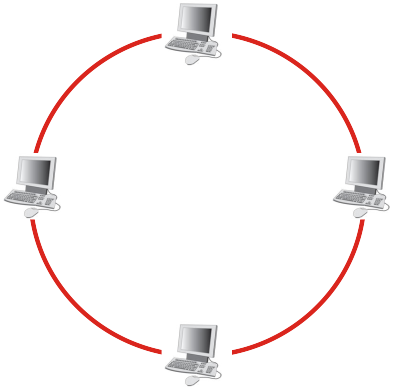 Ring type of network